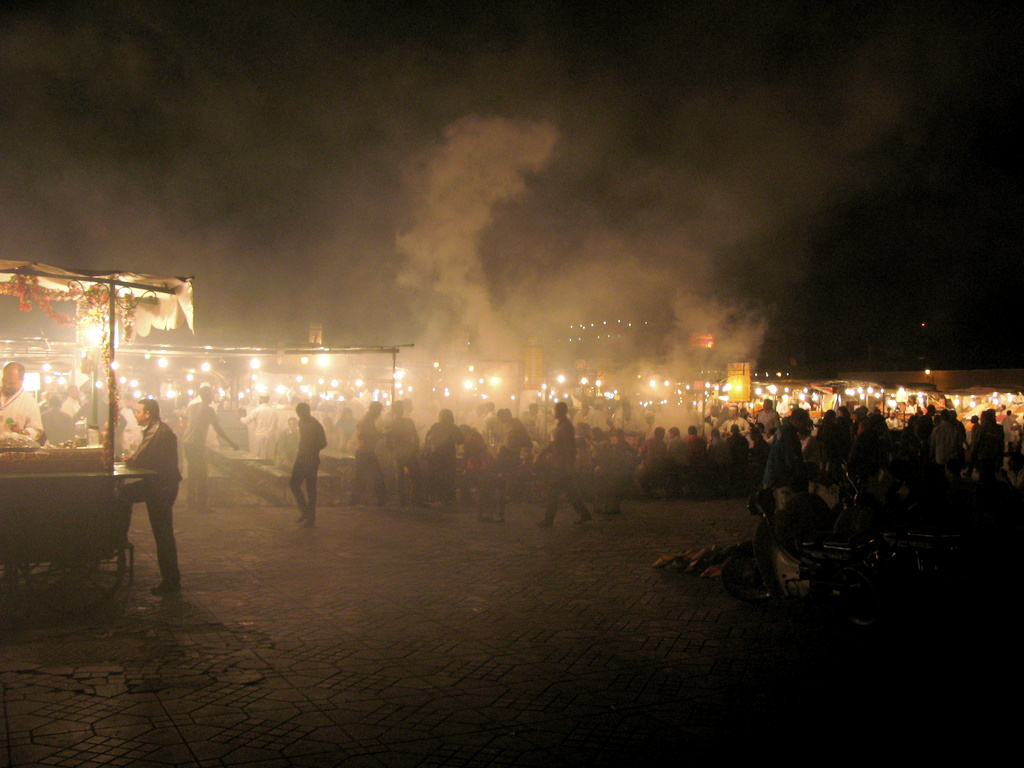 Steam rises from food stalls in the Jma al Fnaa at night